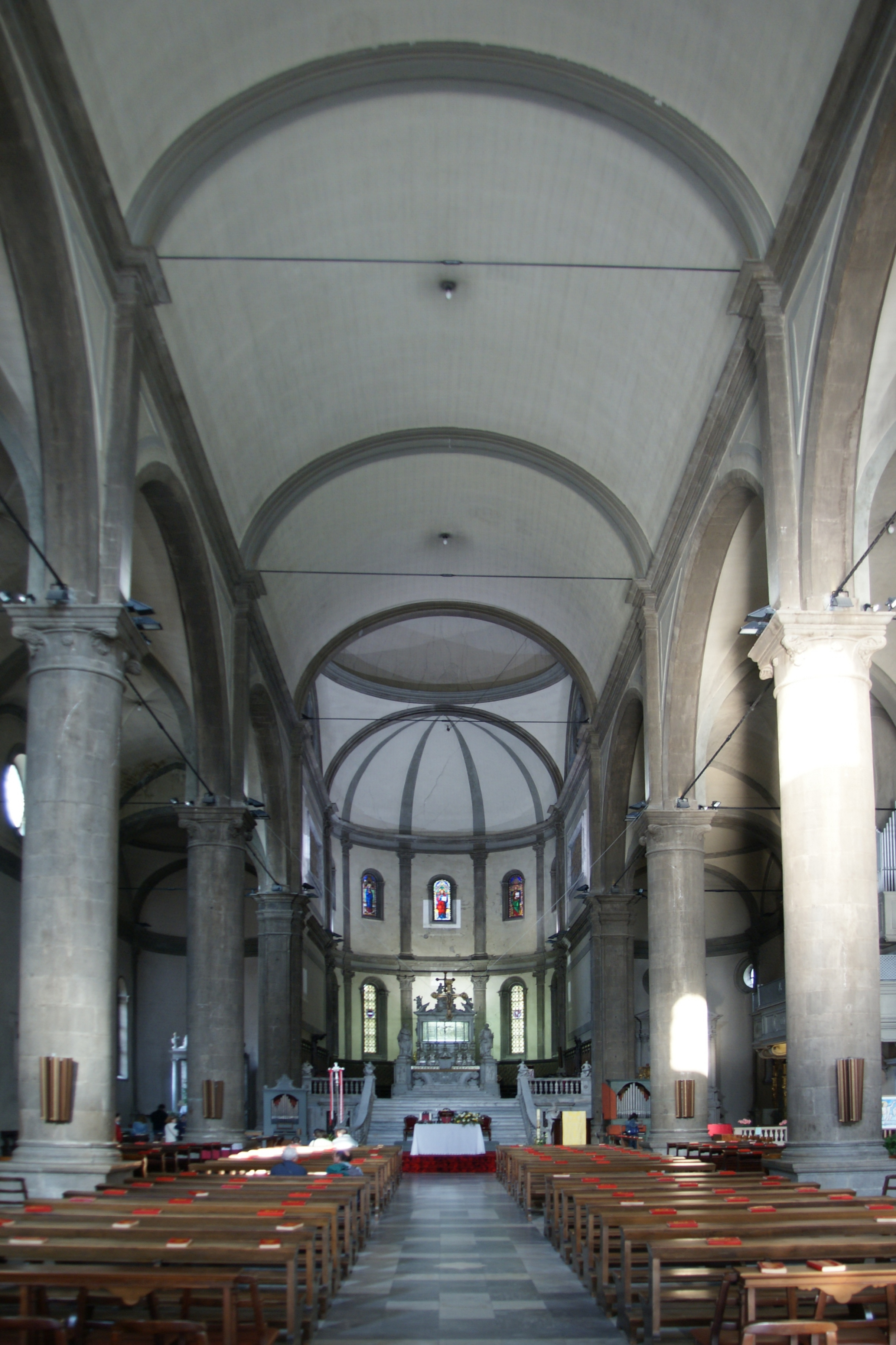 Cividale del Friuli, interior of Cathedral Santa Maria Assunta